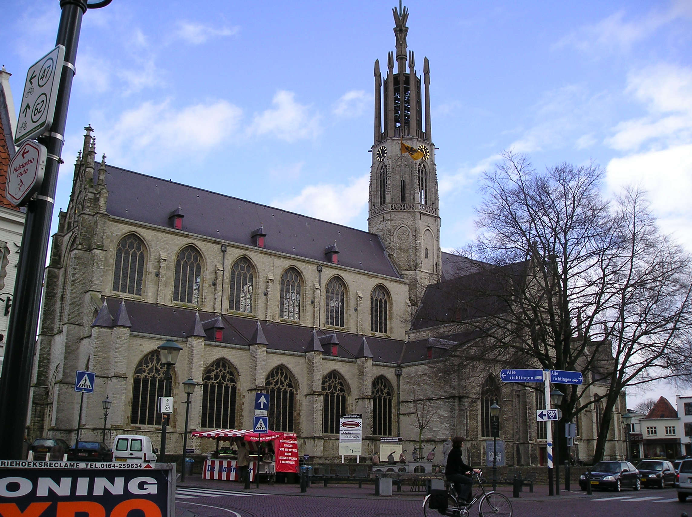 Church of Hulst, Netherlands.